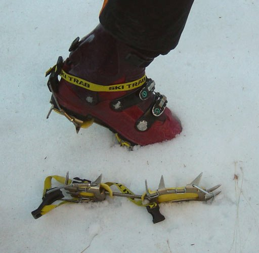 Crampon for a skiing boot. Aluminium-made crampon with twelve points and equipped with antiboot